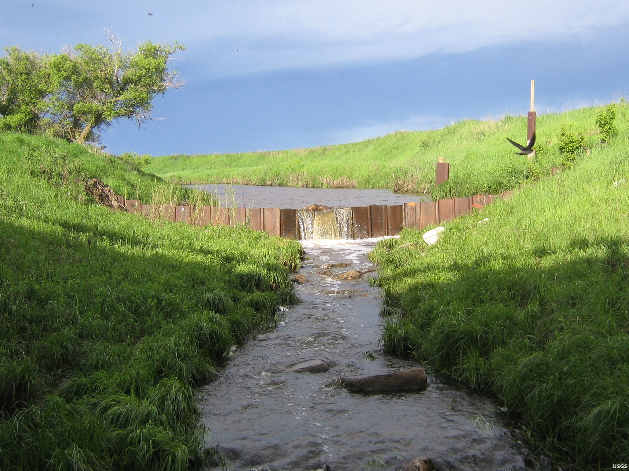 Title: Storm Approaching Green River Description: Sky is dark in the background because a storm moving in to Green River Basin. Taken at USGS streamgage near New Hradec, North Dakota, streamflow 3.55 cubic feet per second. Location: New Hradec, ND, USA Date Taken: 6/8/2010 Photographer: Nathan Stroh , U.S. Geological Survey